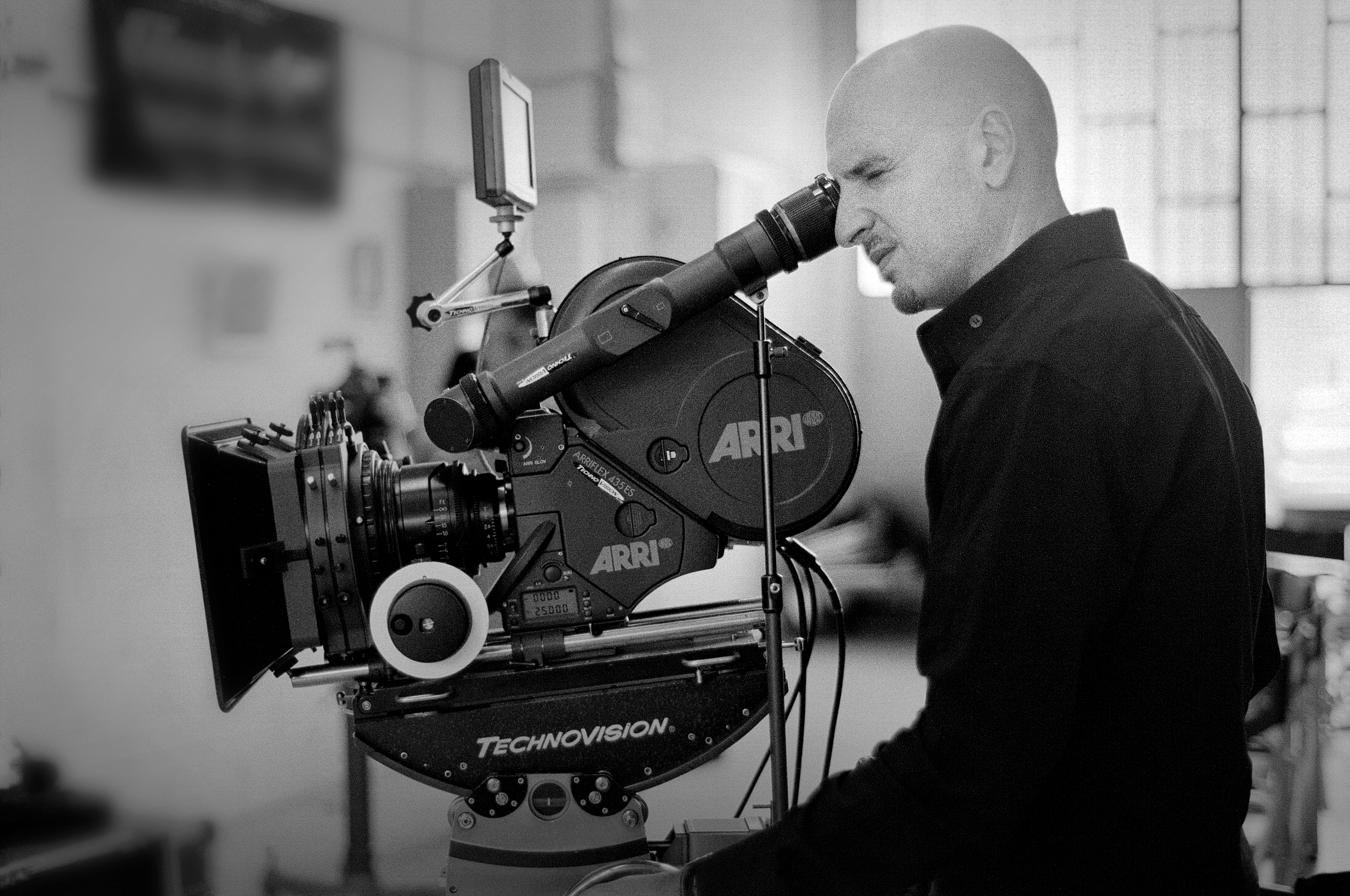 Giacomo Gatti sul set